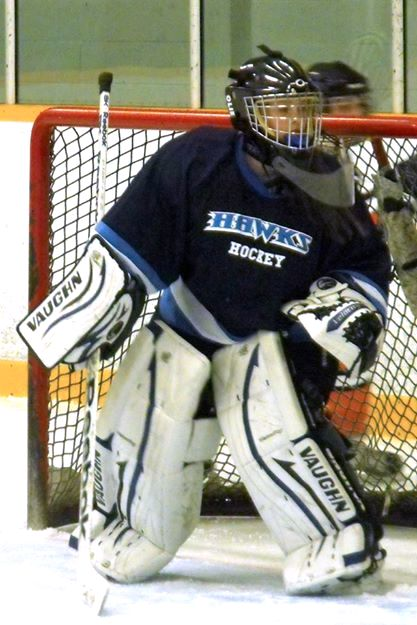 This photo was taken by Devan Mighton during the 2014-15 WECSSAA season.